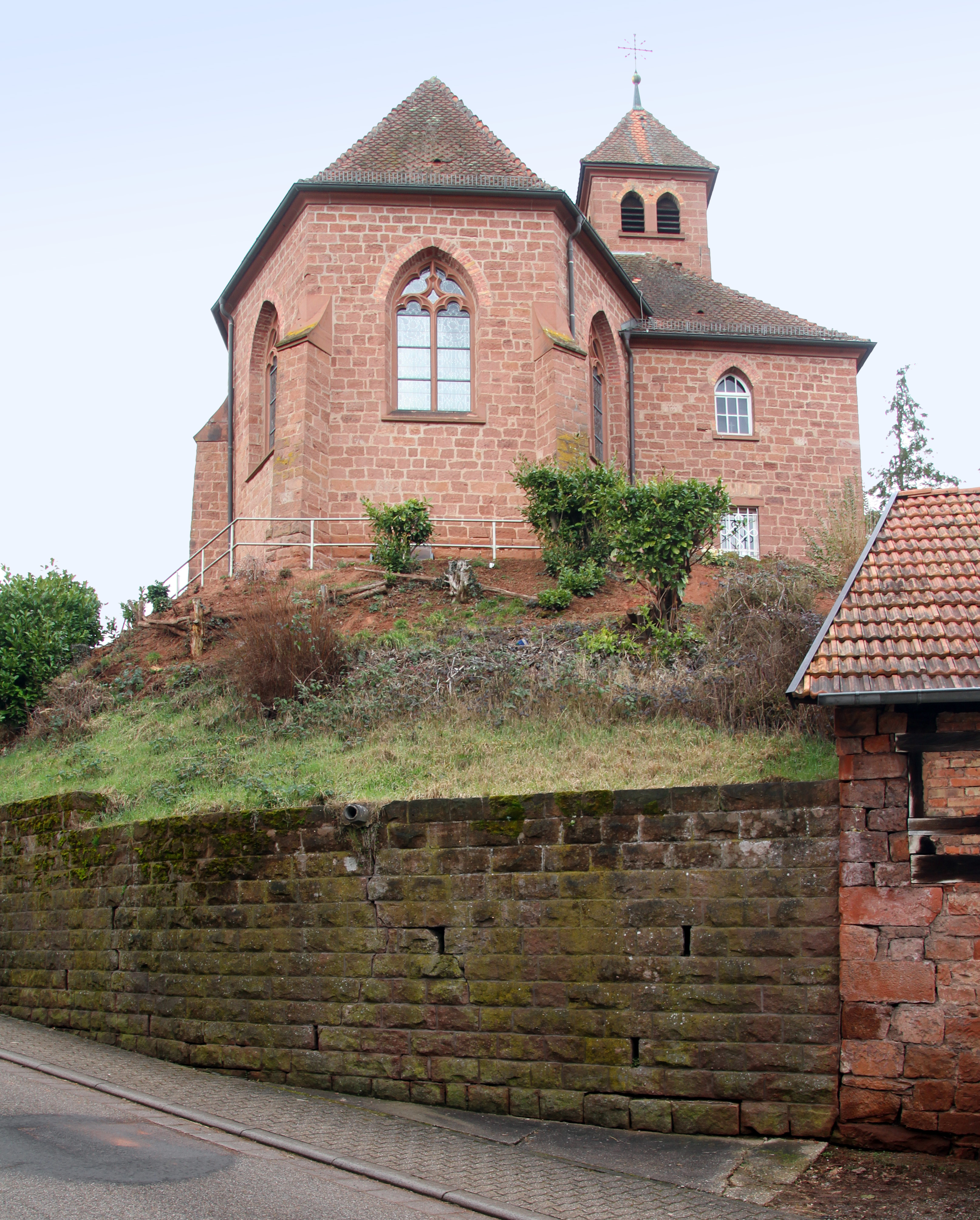 Church of Saint Sylvester in Völkersweiler.